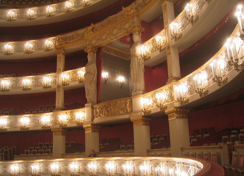 München, Germany: Nationaltheater (home to the Bavarian State Opera), Max-Joseph-Platz. Auditorium with Royal Box